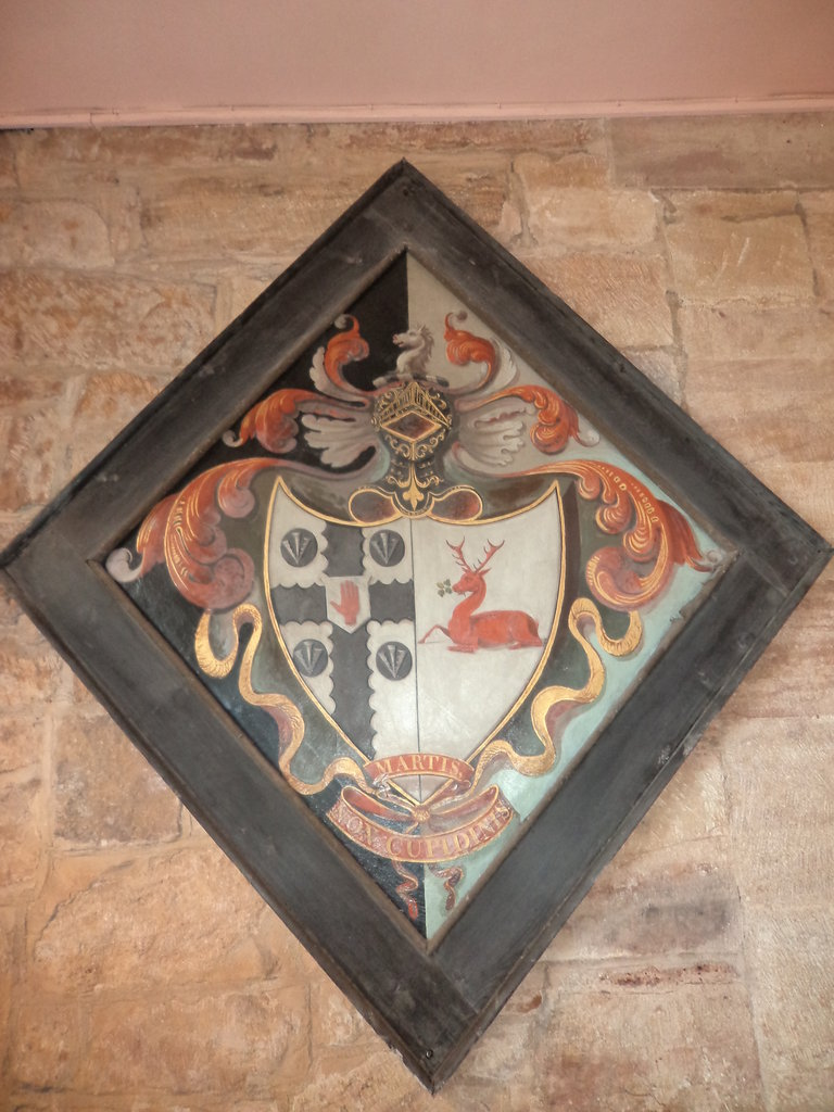 Hatchment created on the death of Sir Frederick Fletcher-Vane, 2nd Bt, who died March 1832